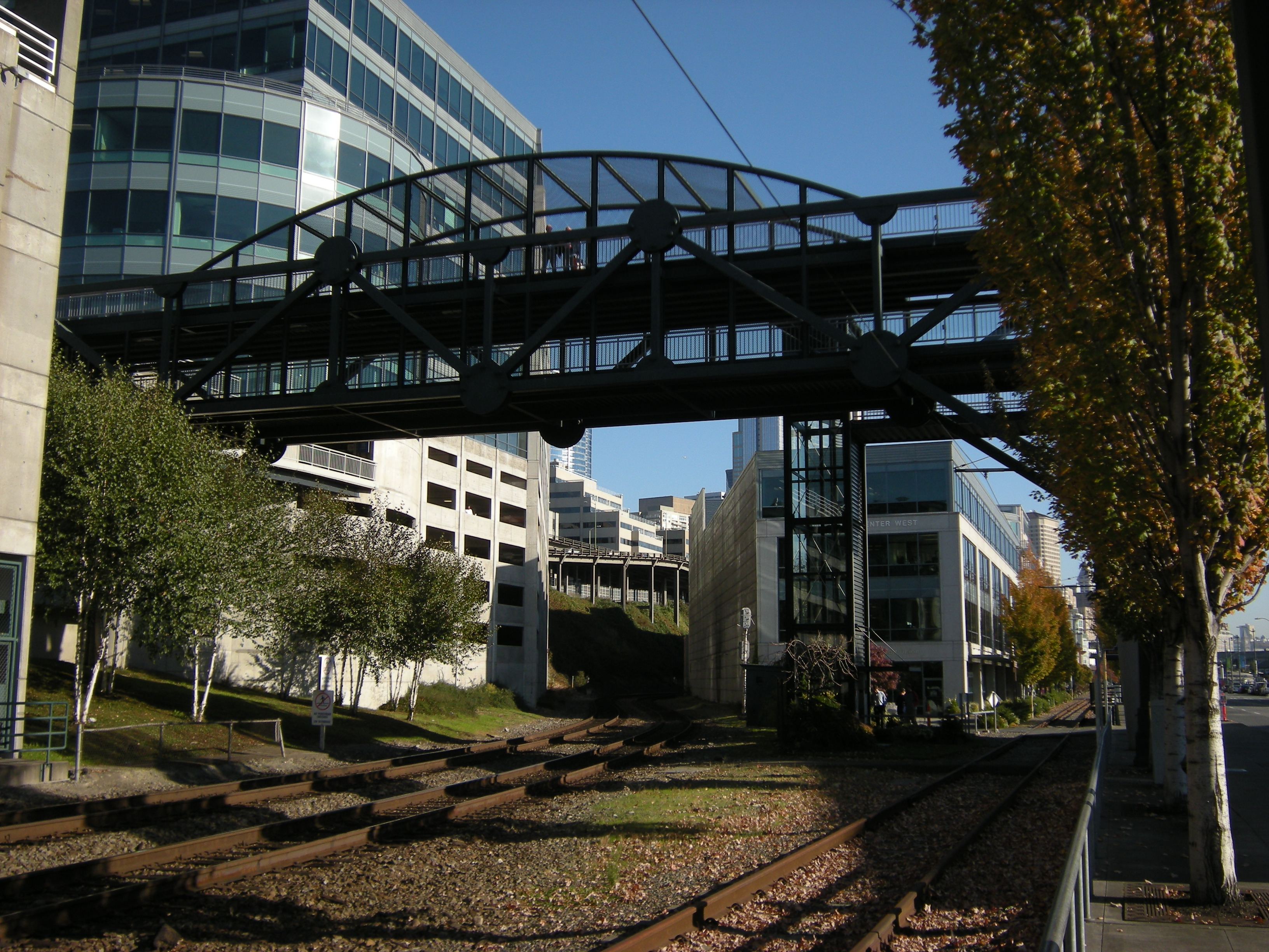 Bell Street Bridge, a pedestrian bridge connecting Pier 66, Seattle, Washington to the Belltown neighborhood across Alaskan Way and the BNSF railway tracks. This picture shows the portion spanning the tracks.